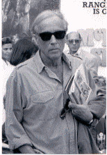 Author: Estate of Hans Koning Source